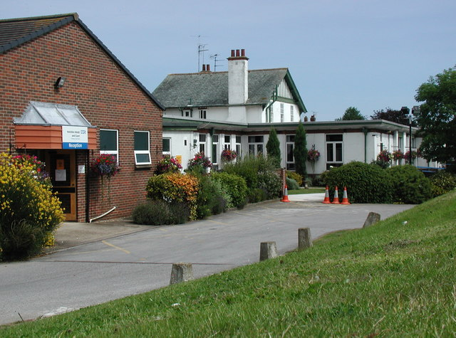 Hornsea Cottage Hospital, Hornsea, East Riding of Yorkshire, England.Hornsea and District War Memorial Cottage Hospital in Eastgate was built as a war memorial in 1922 and opened in 1923 with room for eight beds, which was enlarged to twenty two beds by 1983. These days the threat of closure keeps this NHS minor injuries unit almost constantly in the news.